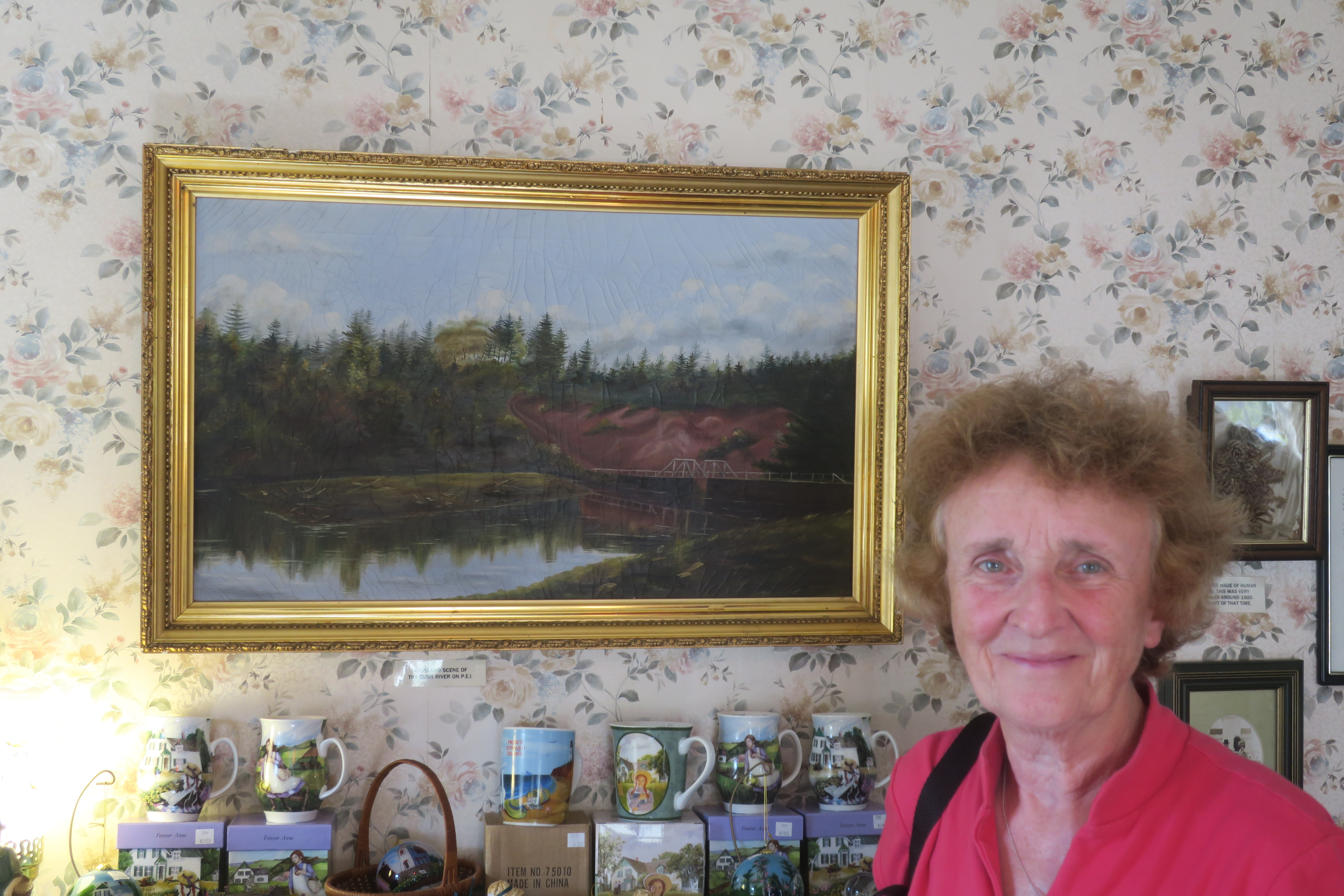 Kathy Martin with a painting of the Dunk River in the Lucy Maud Montgomery's birthplace in 2017. Martin's 1981 book, Watershed Red, was about the natural history of the Dunk River, Prince Edward Island.